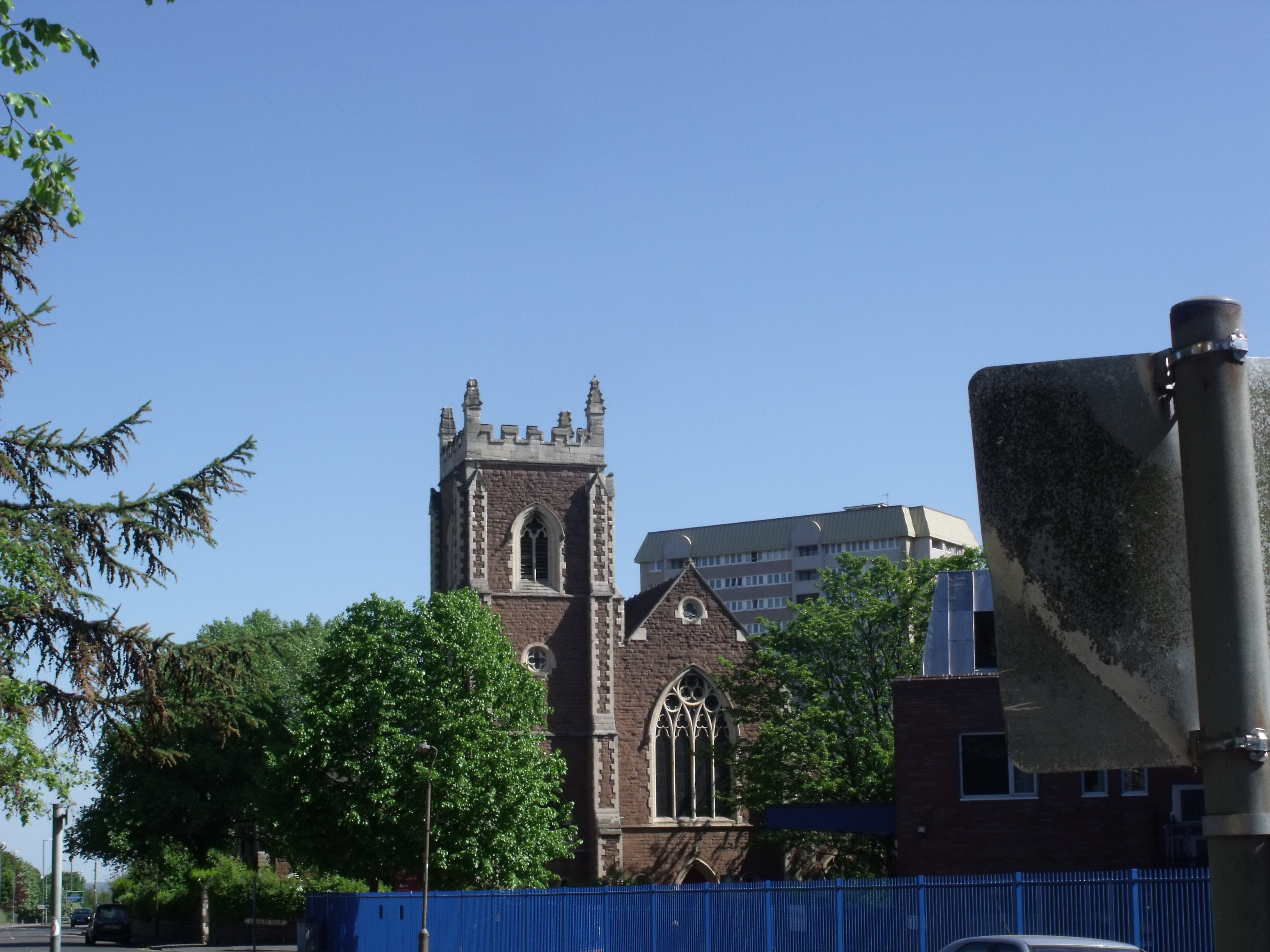 Parish church of St John the Evangelist and St Peter, Ladywood, Birmingham, seen from the northwest from Monument Road